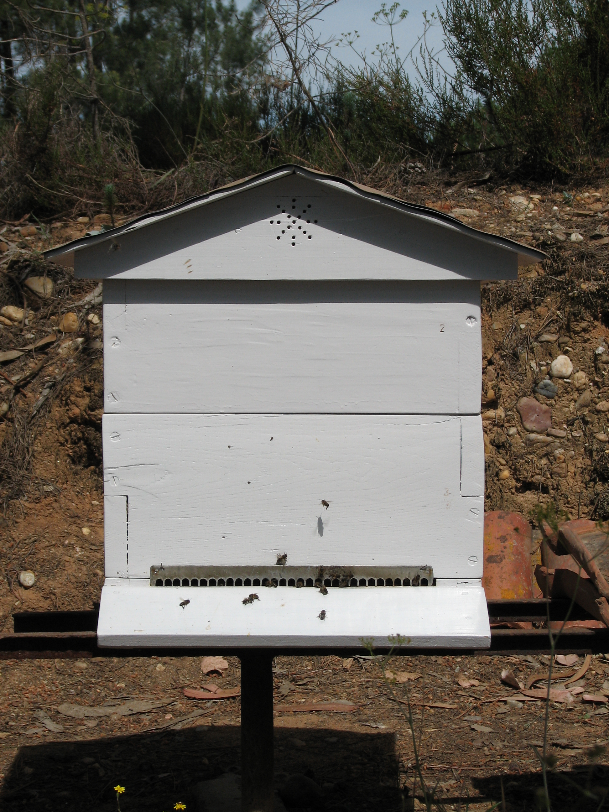 Beehive handmade with cork ; Author:Daniel Feliciano ; Location: Torres Novas - Portugal